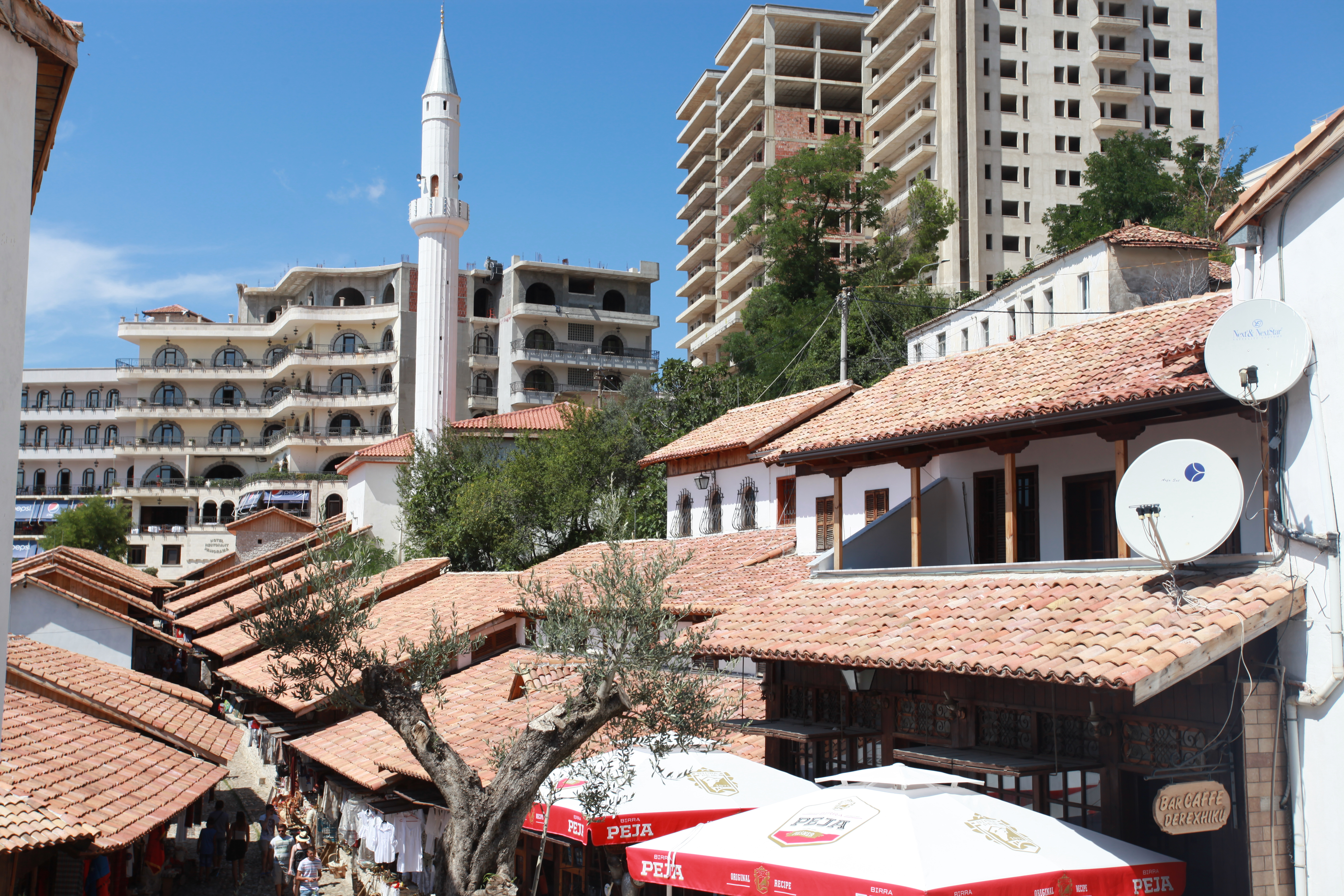 kruja albania 2016